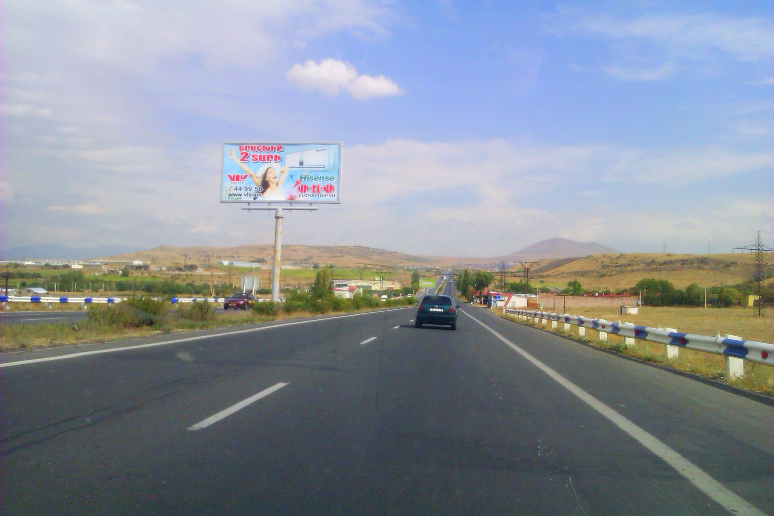 Yerevan-Sevan highway, Kotayk Province, Armenia.